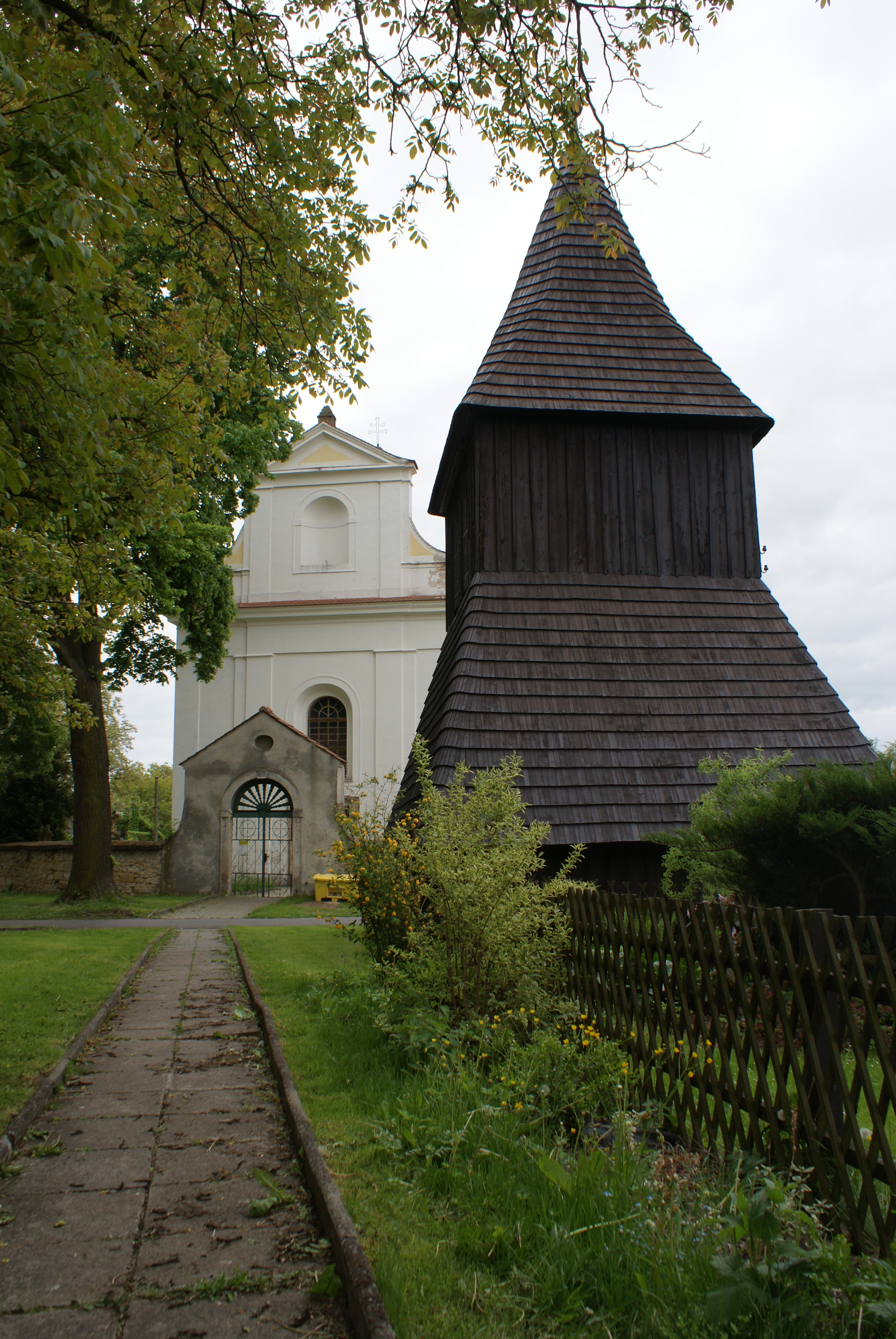 Sudoměř, Mladá Boleslav district, Czech Republic, church and wooden chapel on the village common.